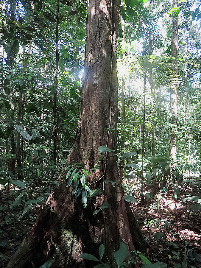 A Matamata Tree near the Matamata River, Amacayacu Park, Colombia. Found mainly in the Amazon Basin and appreciated for strong wood. Lecythidaceae